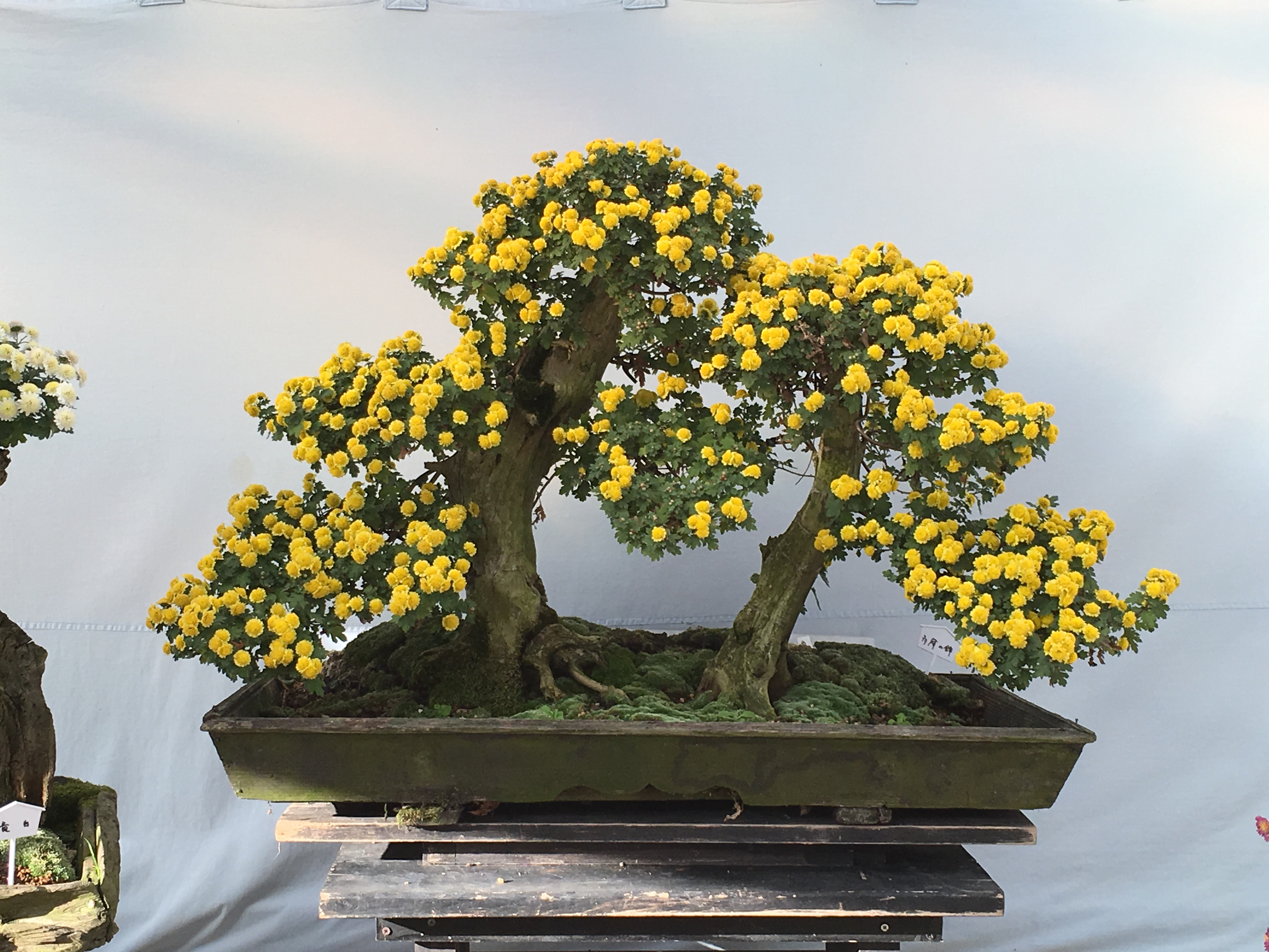 Examples of traditional bonsai chrysanthemum pieces at the Nagoya Castle Chrysanthemum Competition 2017. The flower is often combined with a dead piece of wood and grows from the back along the wood to give the impression of a miniature tree. Some chrysanthemums stand for themselves without using wood. Their maximum life-span is normally around five years.